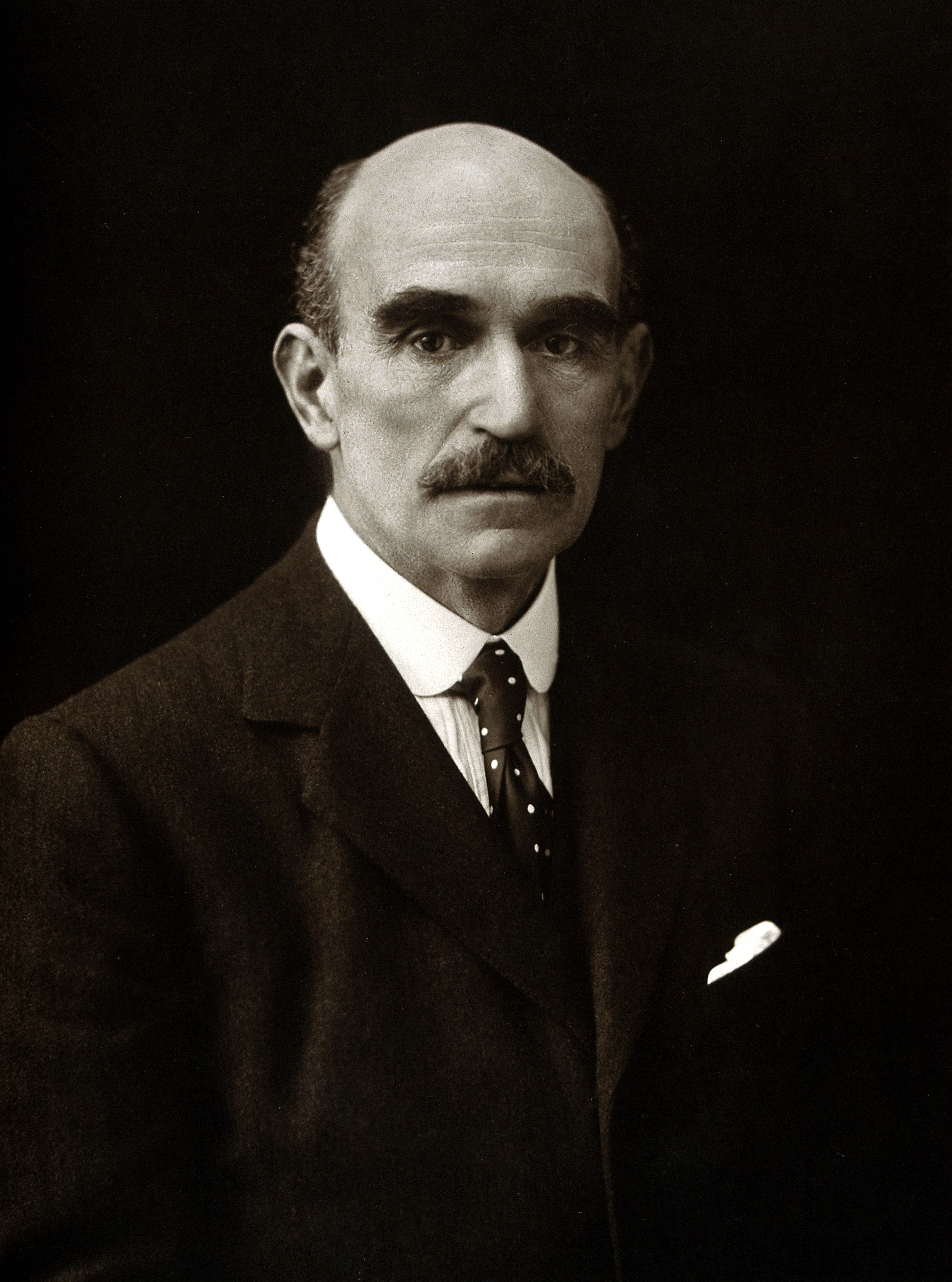 Sir James Hodsdon. Photograph by J. Russell & Sons. Iconographic Collections Keywords: portrait photographs